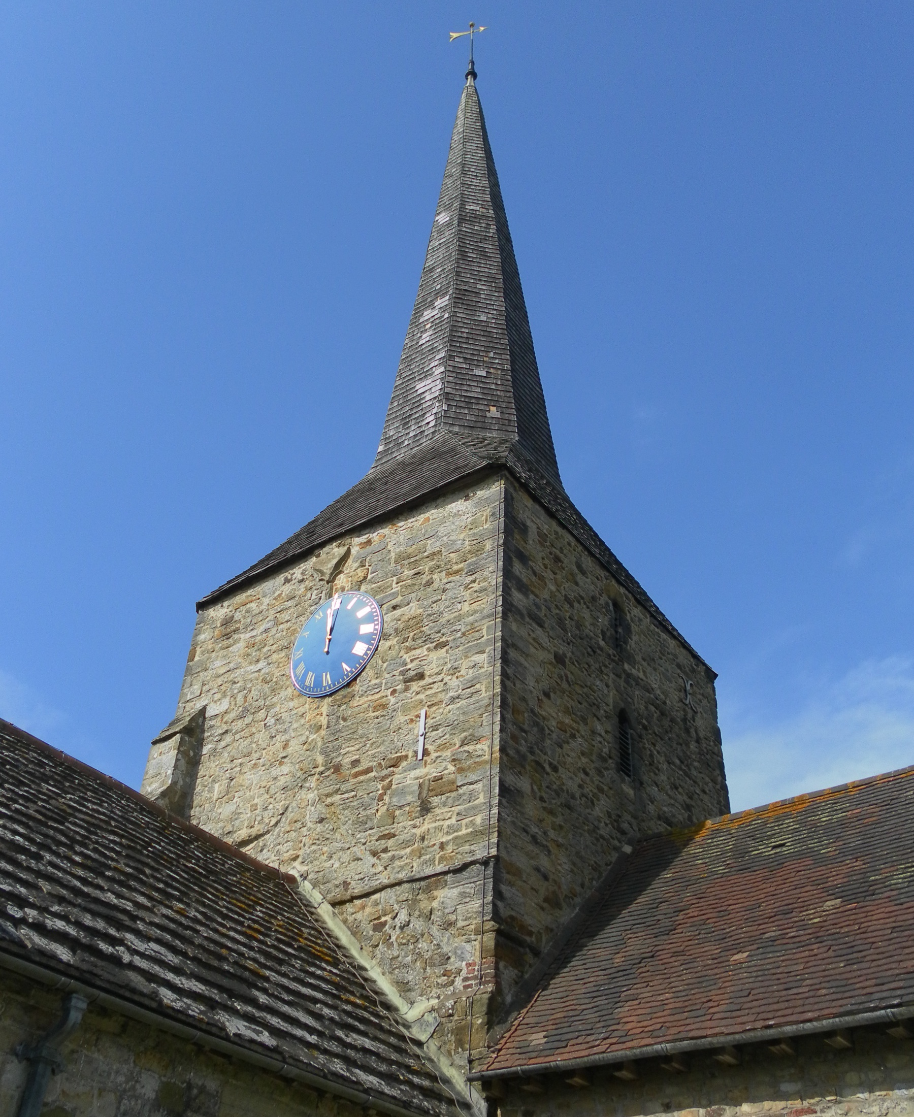 Crossing tower and broach spire of St Giles' parish church, Church Lane, Horsted Keynes, West Sussex, seen from the southeast